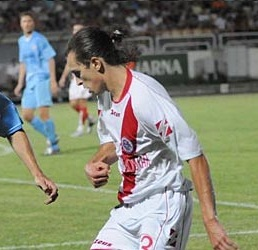 zadro, zrinjski player